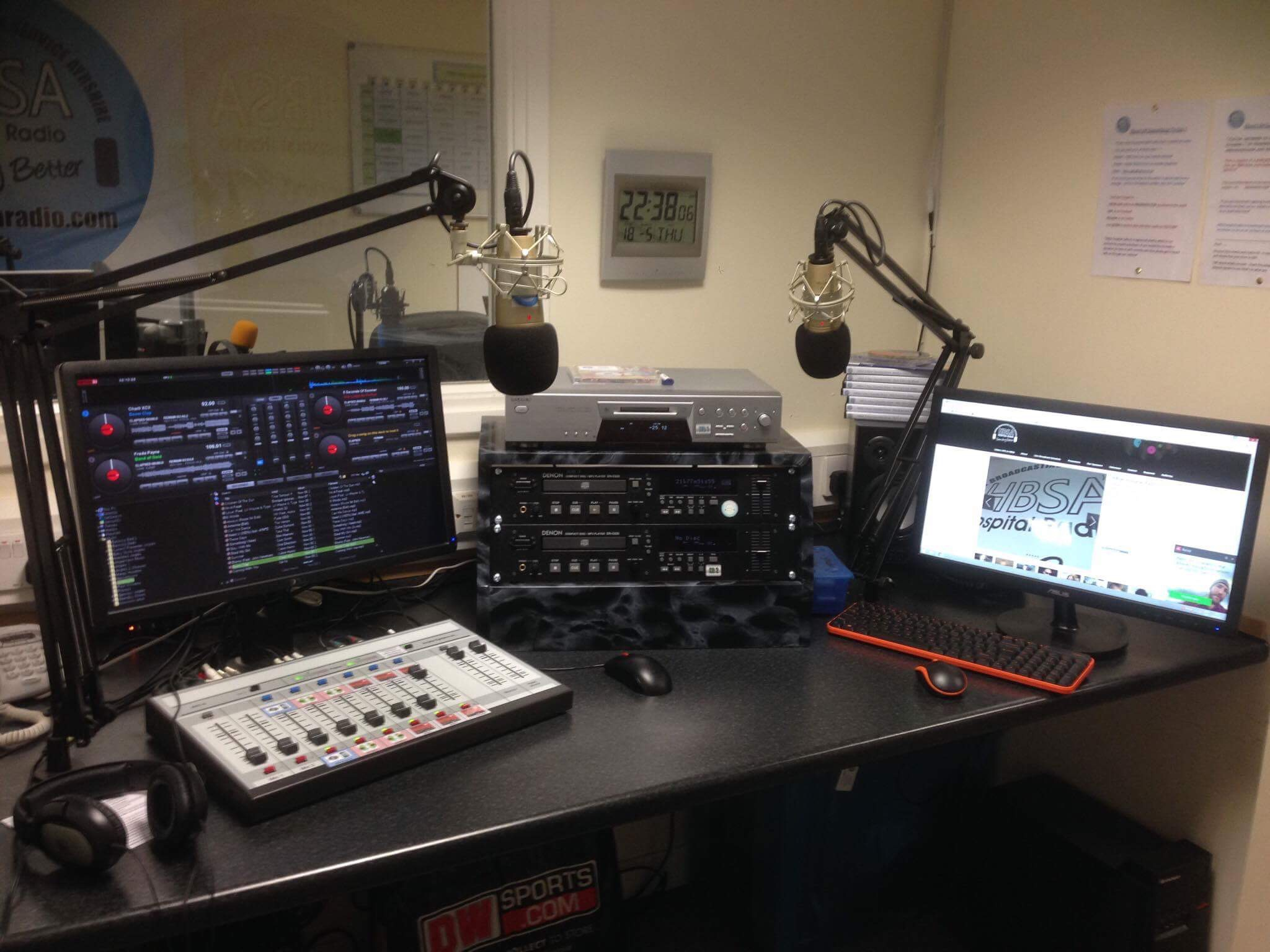 S2 2017